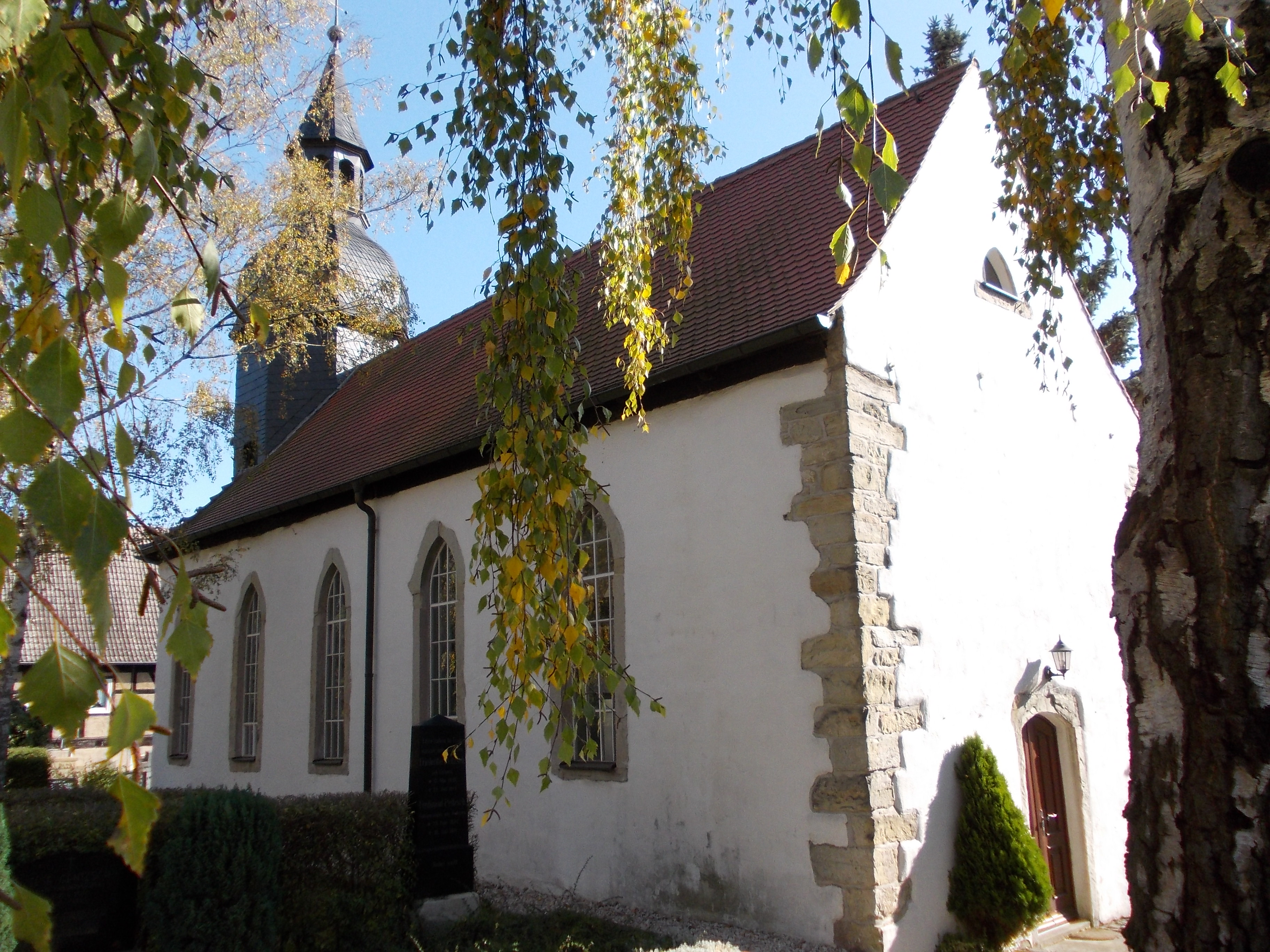 Loitzschütz church (Gutenborn, district of Burgenlandkreis, Saxony-Anhalt)